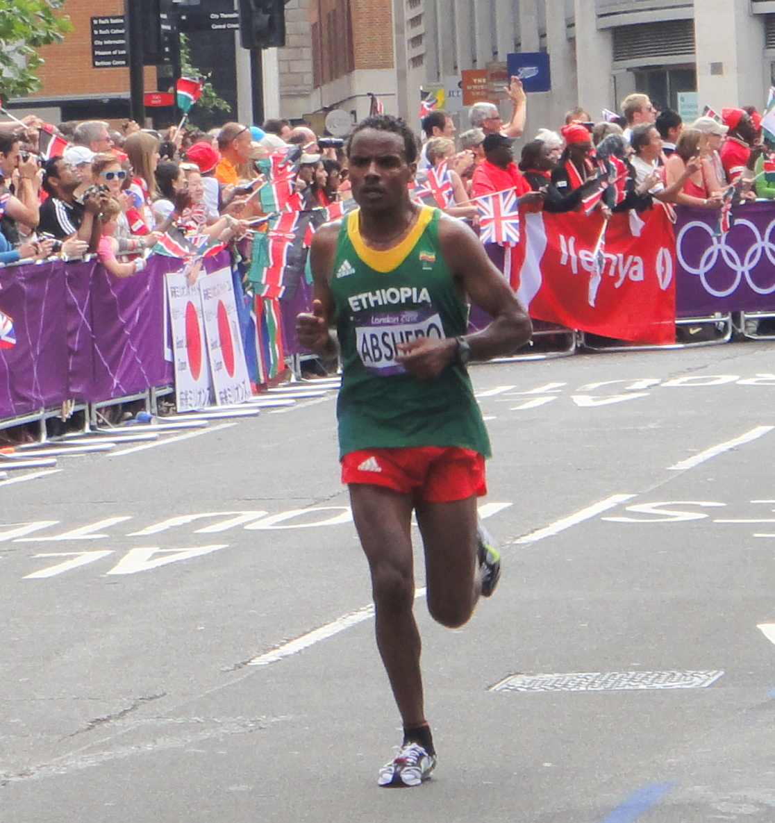 Ayele Abshero (Ethiopia) - London 2012 Men's Marathon